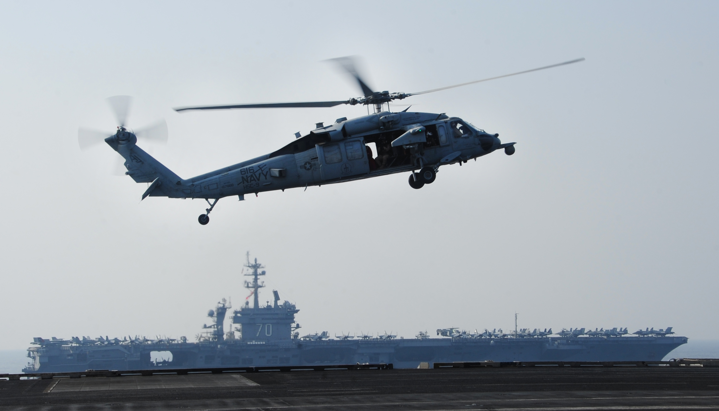 U.S. Navy MH-60S Seahawk helicopter assigned to Helicopter Sea Combat Squadron (HSC) 9 lands on the flight deck of the aircraft carrier USS George H.W. Bush (CVN 77) in the Persian Gulf as the aircraft carrier USS Carl Vinson (CVN 70), background, pulls alongside Oct. 18, 2014, as the ships support Inherent Resolve. The Carl Vinson relieved the George H.W. Bush in the U.S. 5th Fleet area of responsibility. President Barack Obama authorized humanitarian aid deliveries to Iraq as well as targeted airstrikes to protect U.S. personnel from extremists known as the Islamic State in Iraq and the Levant. U.S. Central Command directed the operations.